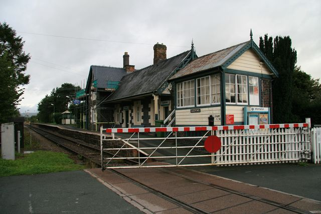 Caersws Station All quiet early on a Sunday morning at Caersws Station, where the B4569 crosses the railway line to Machynlleth.